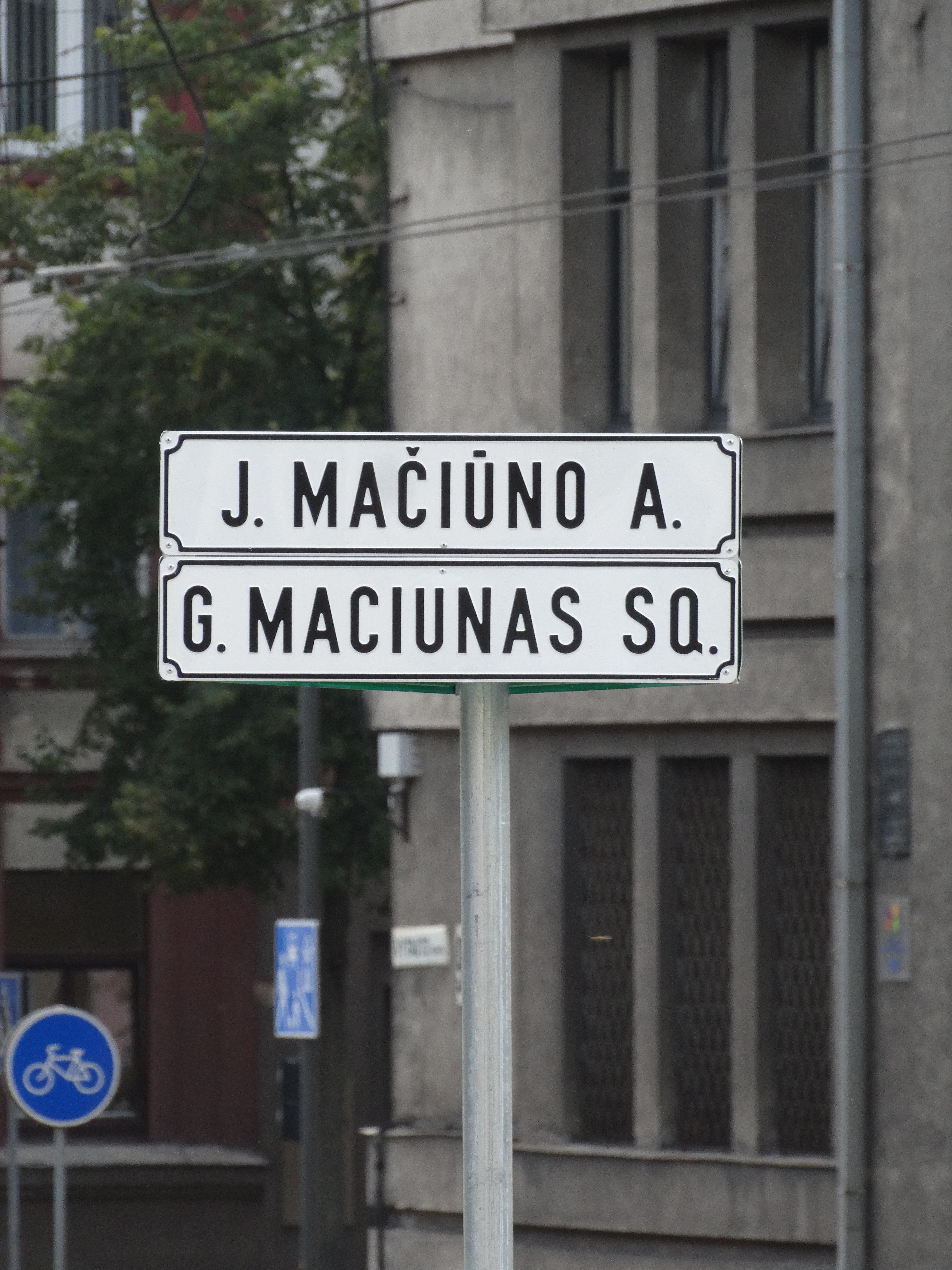 S Square named after George Maciunas, Kaunas, Lithuania